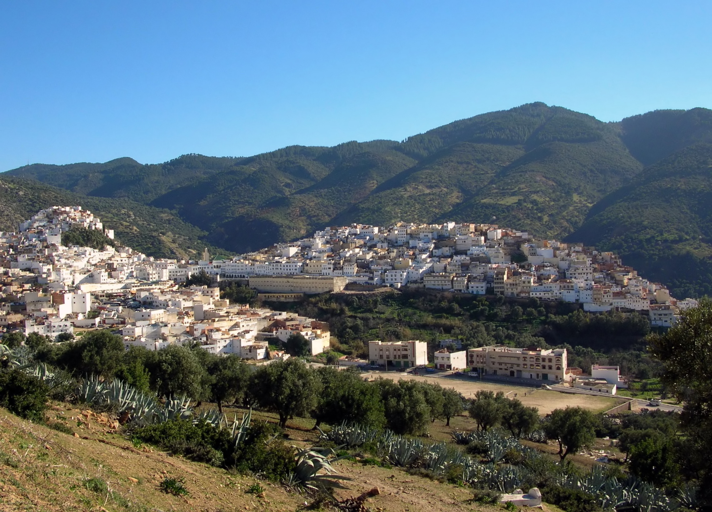 Moulay Idriss, Morocco